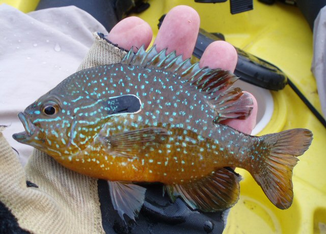 Longear Sunfish (Lepomis megalotis) from Coosa River, near Wetumpka, Alabama (Released)